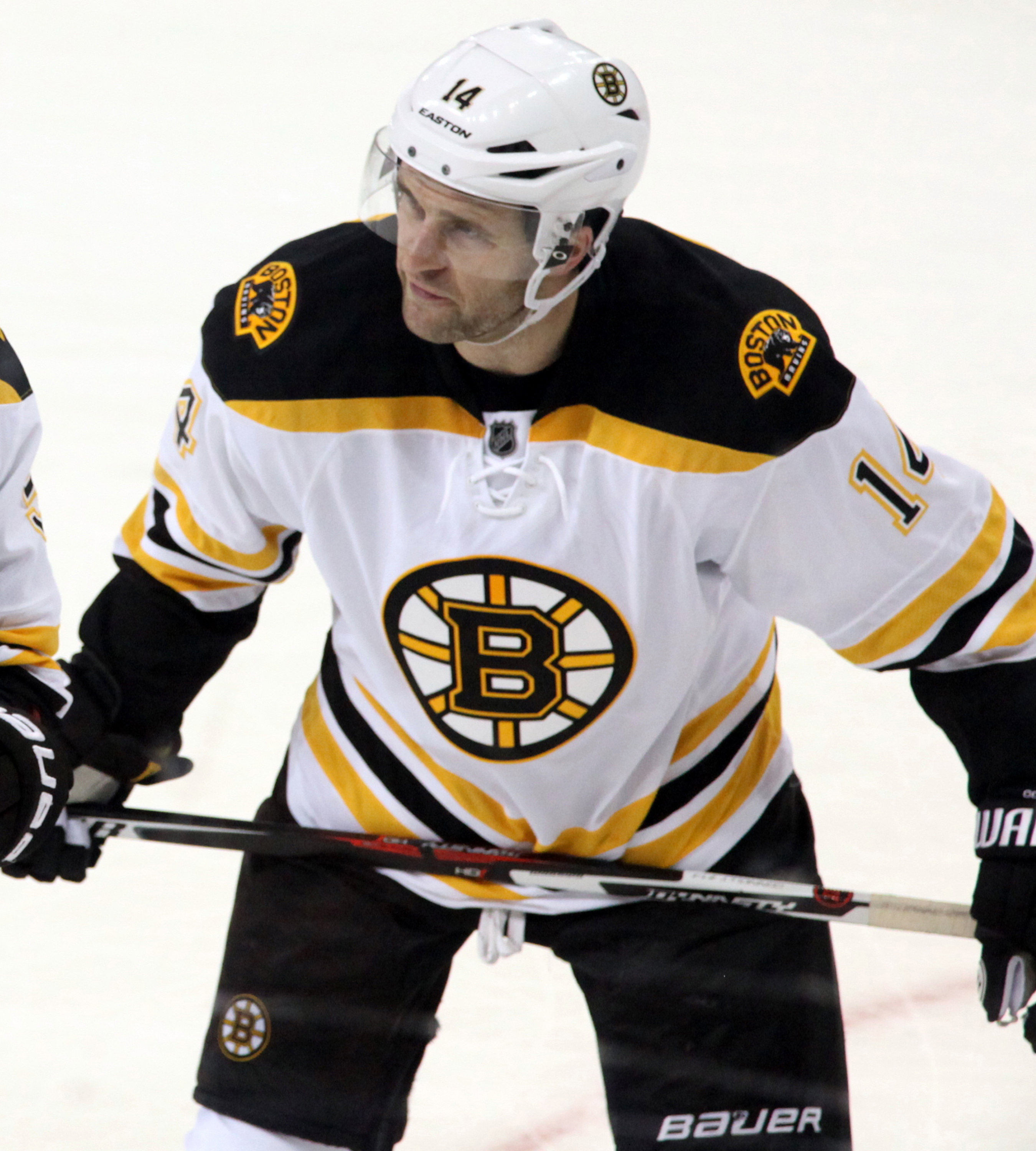 Connolly in September 2015.